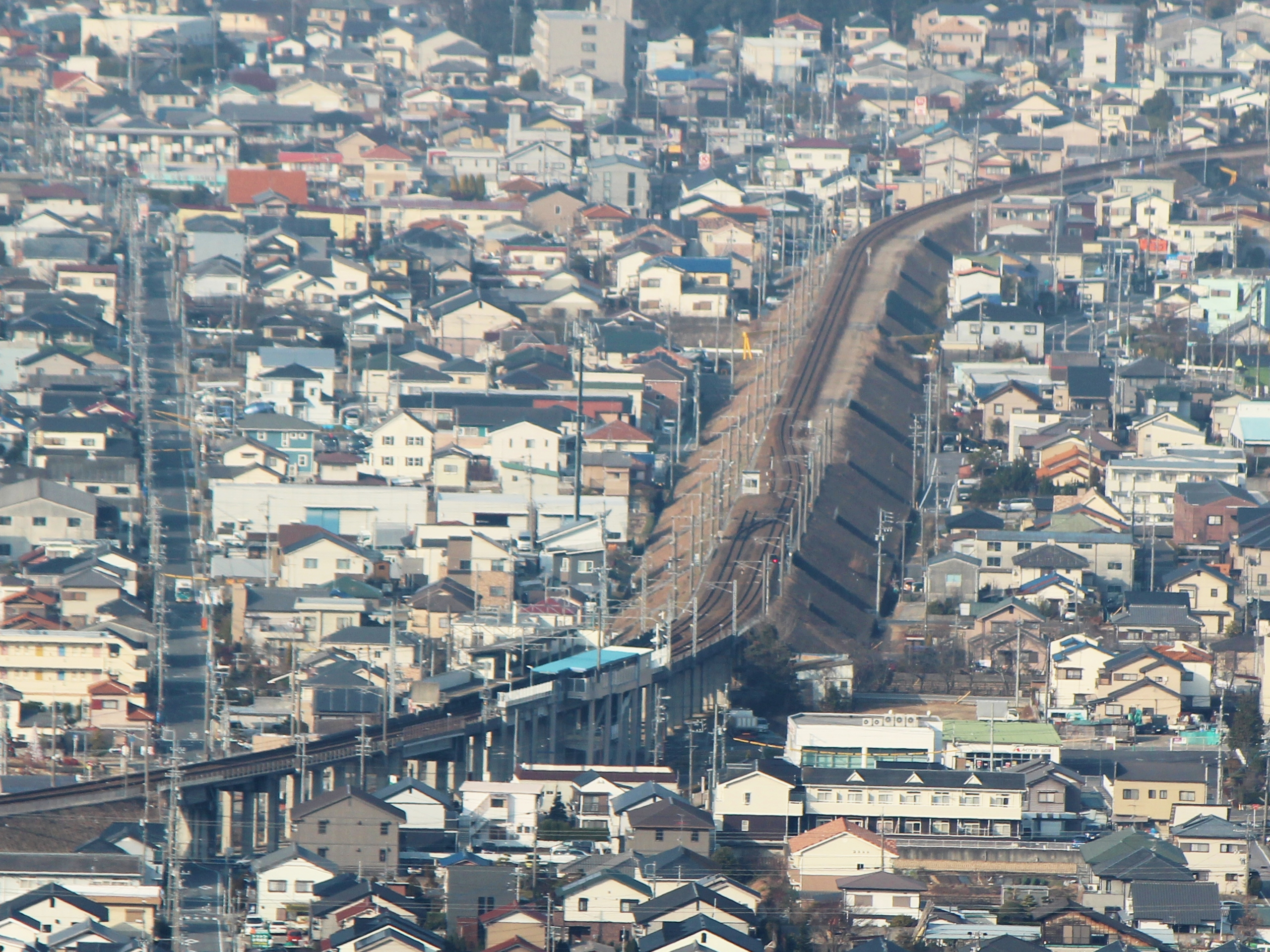 Yamaguchi Station as seen from Mount Monomi, in Seto City, Aichi Prefecture, Japan